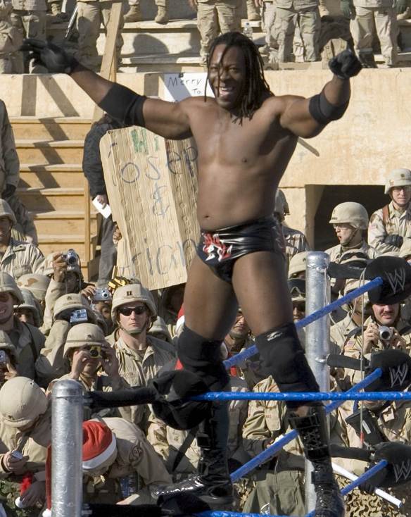 Booker T., one of WWE's Superstars, performs for the troops in Iraq. Cropped version of public domain image Image:Booker Huffman.jpg.